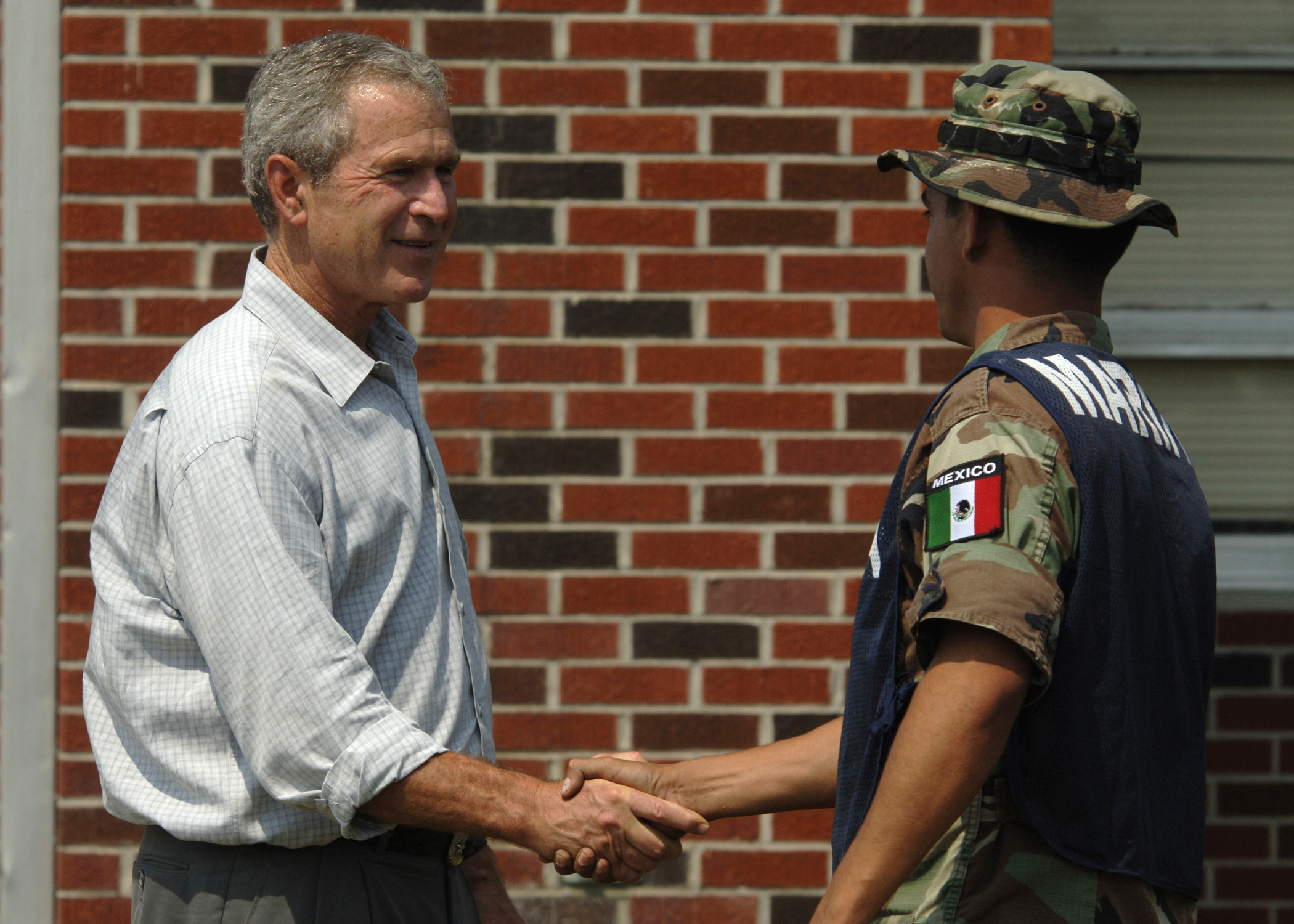 Gulfport, Miss. (Sept. 12, 2005) - President George W. Bush conveys his gratitude to a marine from the Federal Republic of Mexico, on their clean up efforts at 28th Street Elementary School in Gulfport, Miss. President Bush is currently visiting the Gulf Coast region to assess the damage and disaster recovery efforts from Hurricane Katrina. The Mexican Navy is assisting the U.S. Navy in providing humanitarian assistance to victims of Hurricane Katrina. The Navy's involvement in the humanitarian assistance operations are being led by the Federal Emergency Management Agency (FEMA), in conjunction with the Department of Defense. U.S. Navy photo by Senior Chief Photographer's Mate Thomas Coffelt (RELEASED)